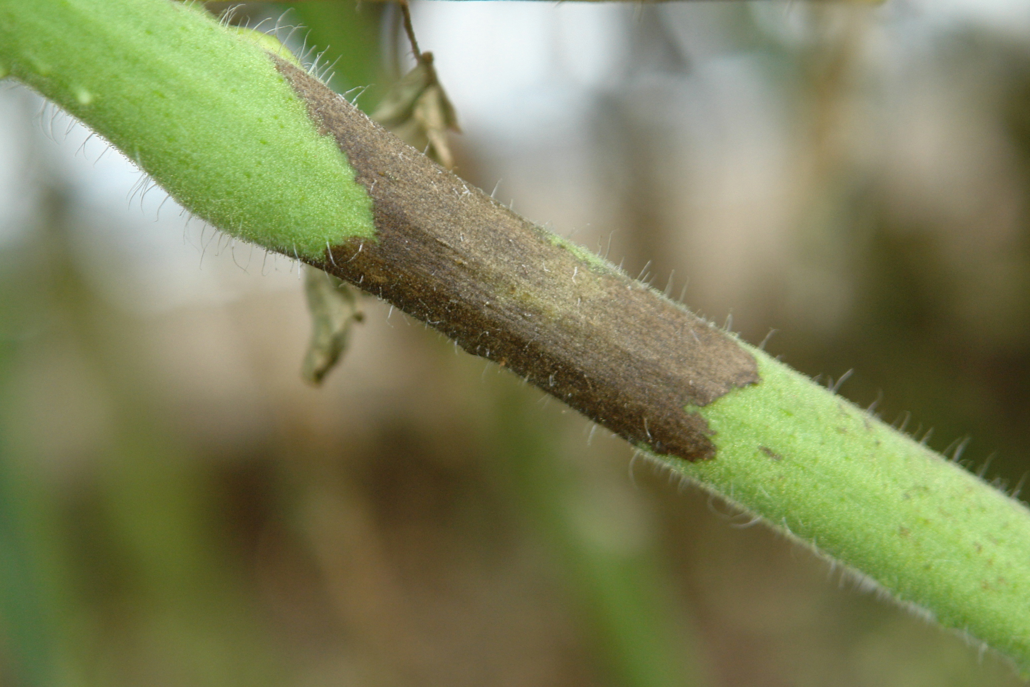 Late blight of tomato (Lycopersicon esculentum) in a garden near Hilo, Hawaii, caused by Phyophthora infestans